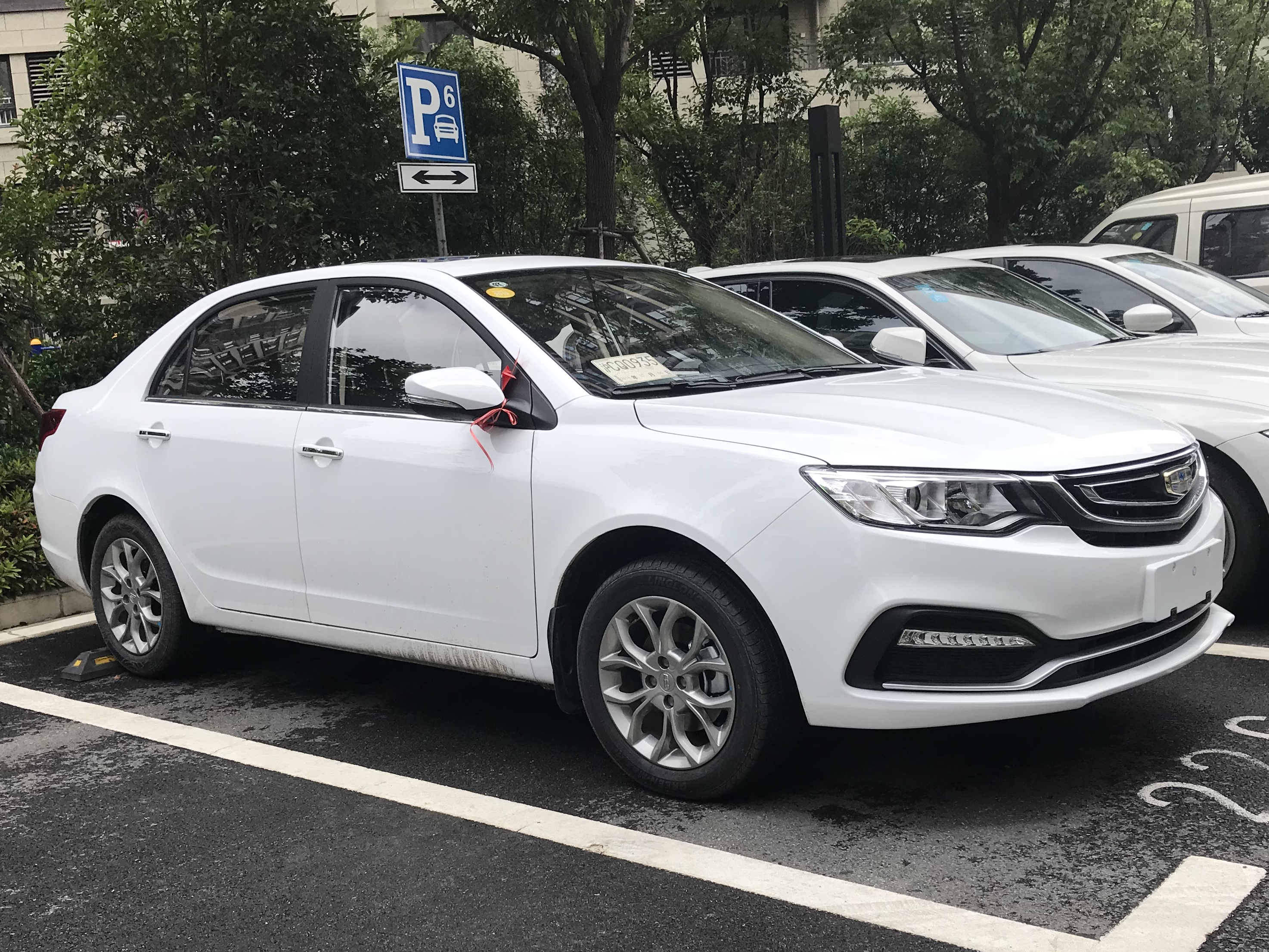 Geely Yuanjing III (FC3)